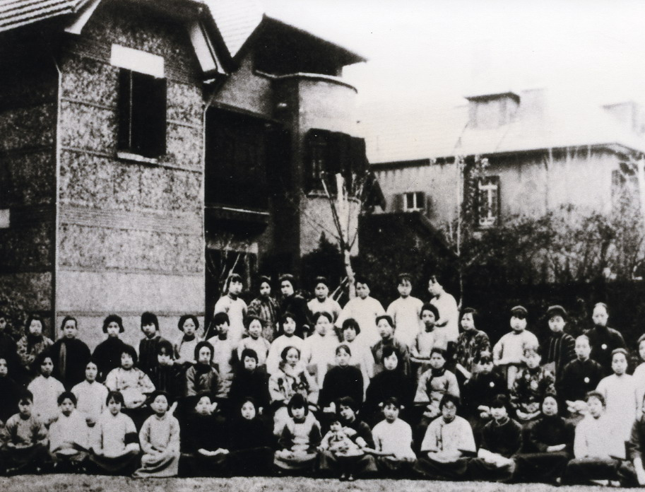 Soong Ching-ling and He Xiangning were with female member of KMT in Shanghai.